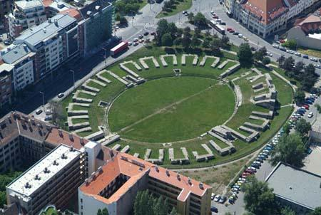 Aerial Archaeology